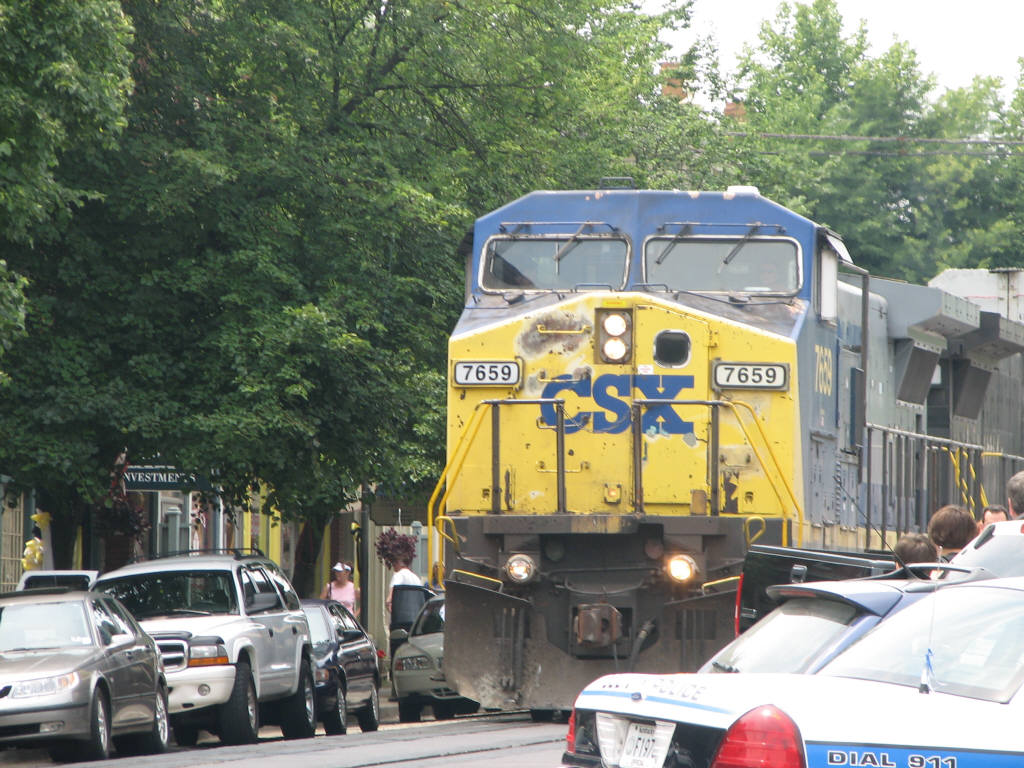 CSXT Freight train rolling through downtown LaGrange